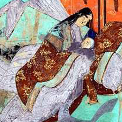 Empress Shoshi with her son the future emperor. Work produced in the 13th century.